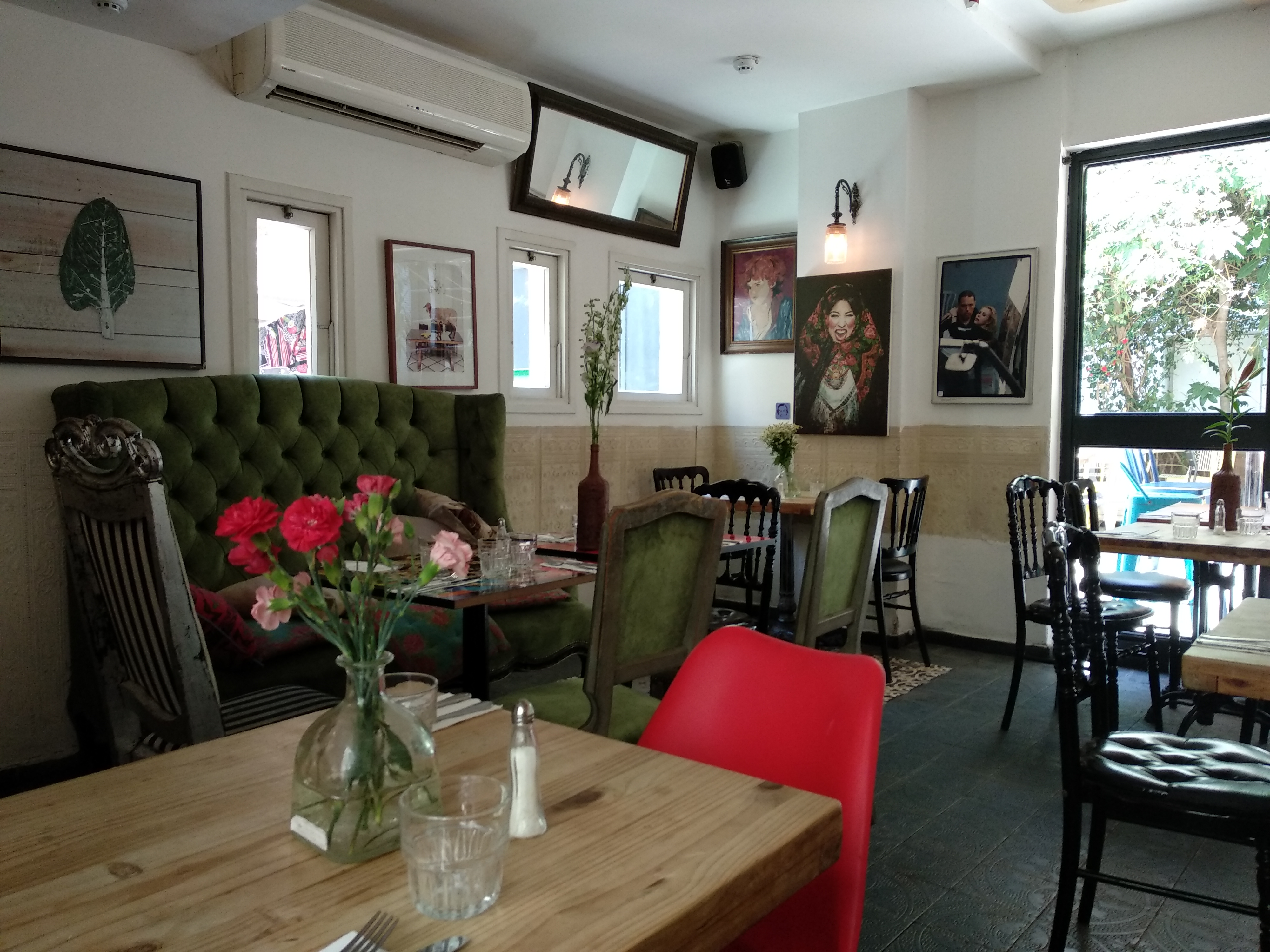 Nanuchka vegan restaurant, Tel Aviv